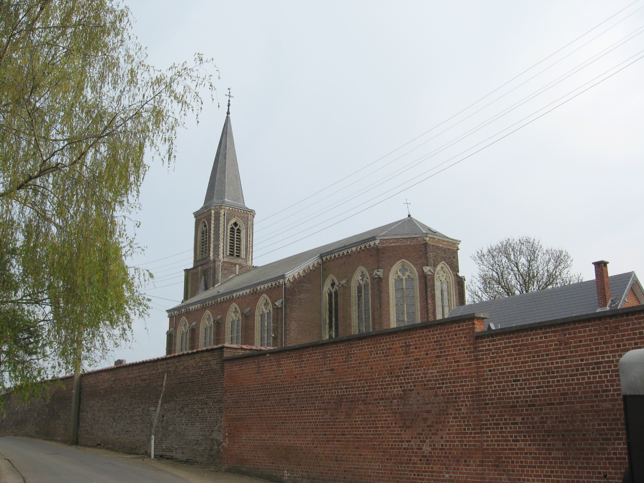 Church of Saint Maurice in Xhendremael, Ans, Liège, Belgium